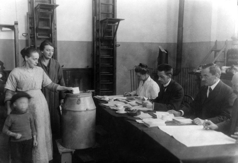 Spaarnestad Photo, SFA001010124 Vrouwen voor het eerst naar de stembus. Amsterdamse raadsverkiezingen, 1921. Voting rights for women. Dutch women going to the polls for the first time. The Netherlands, Amsterdam, 1921.